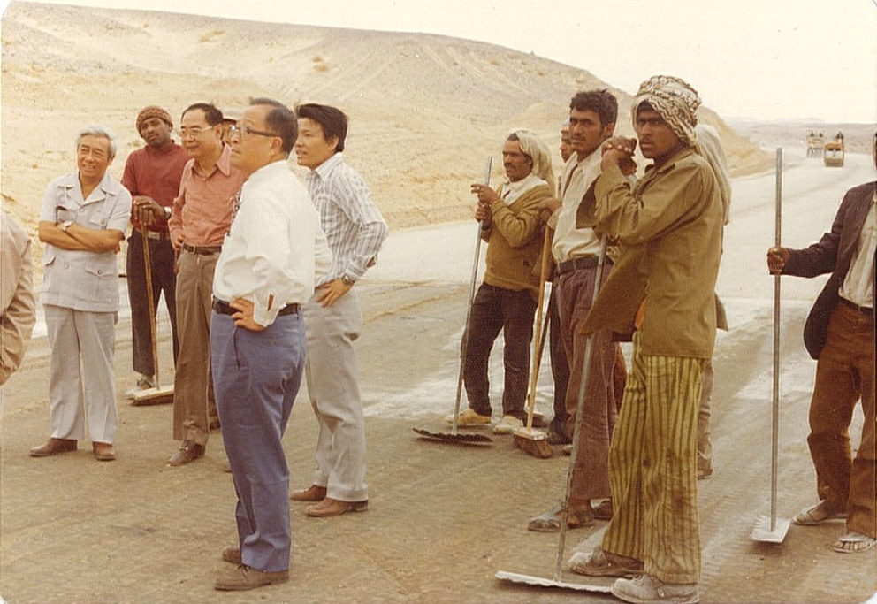 Taiwan engineers and local labors standing at the highway construction site.jpg